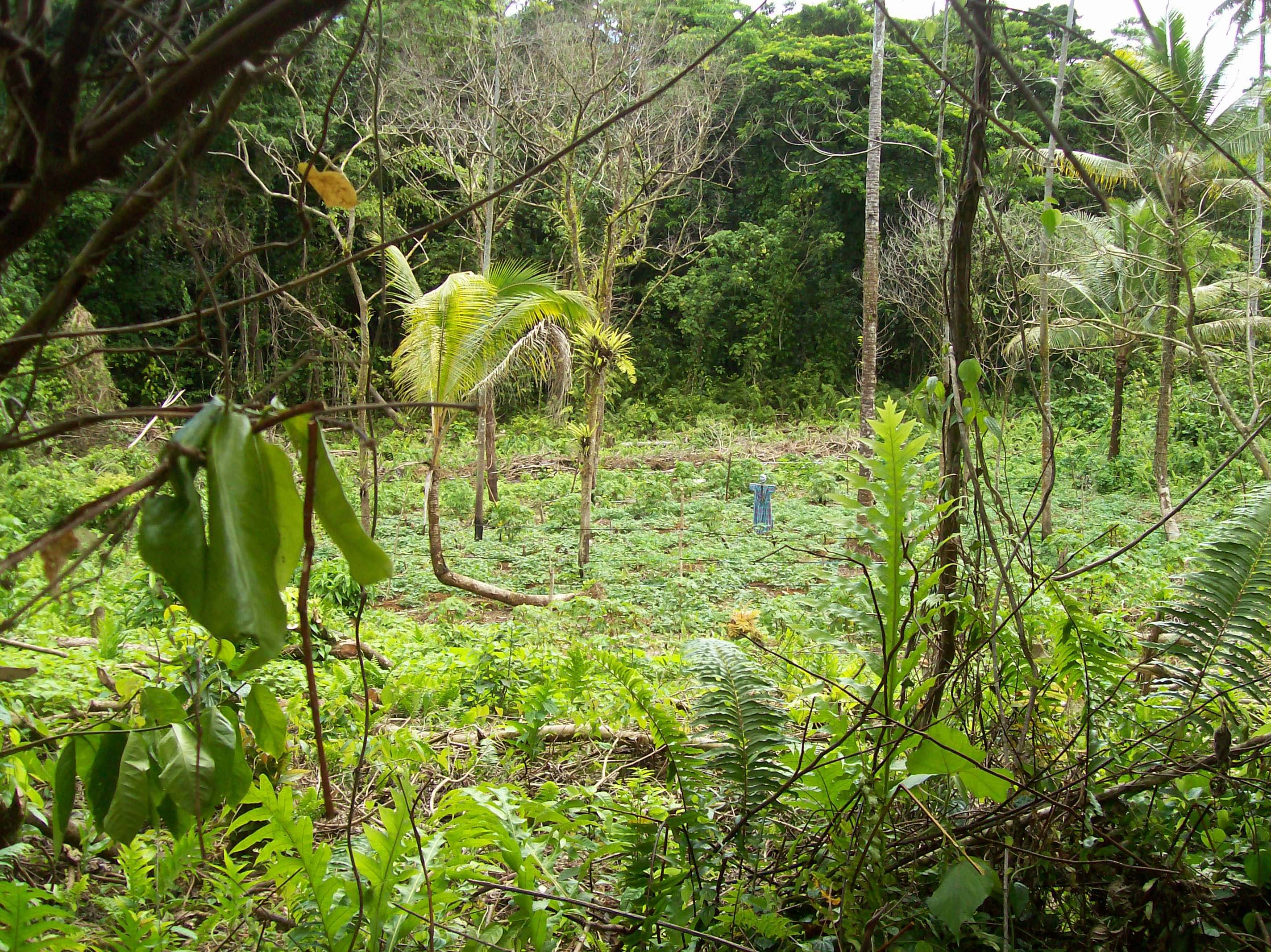 Farming plot along main road to Lunguni, Rennell Island